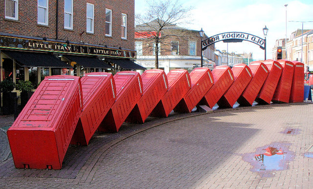 'Out Of Order' by David Mach 'Out Of Order' was commissioned by the Royal Borough of Kingston upon Thames and unveiled on the 19th December 1989. It stands in Old London Road near the junction with Clarence Road.